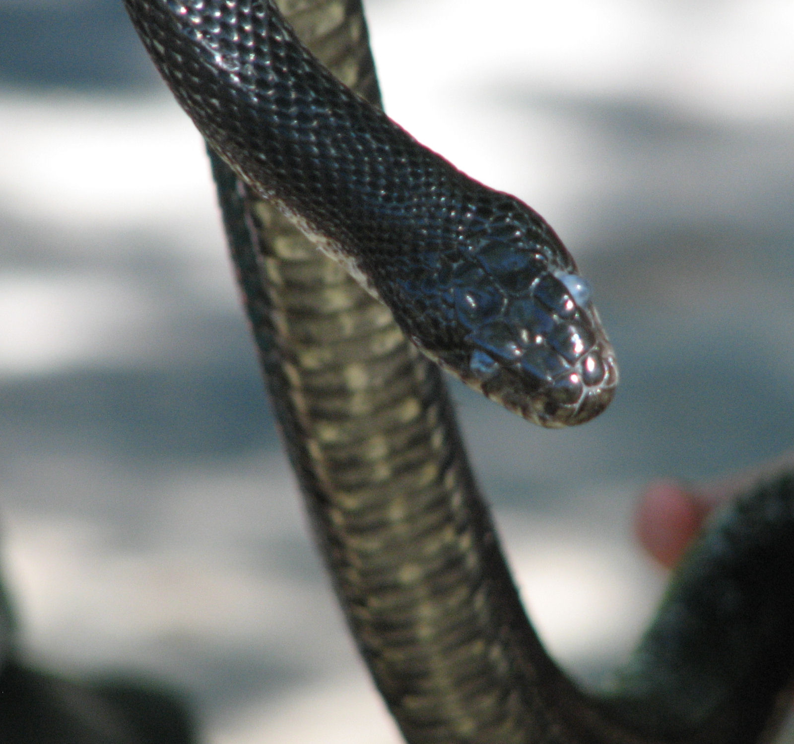 Eastern Ratsnake (Pantherophis alleghaniensis), Murphys Point Provincial Park, Ontario